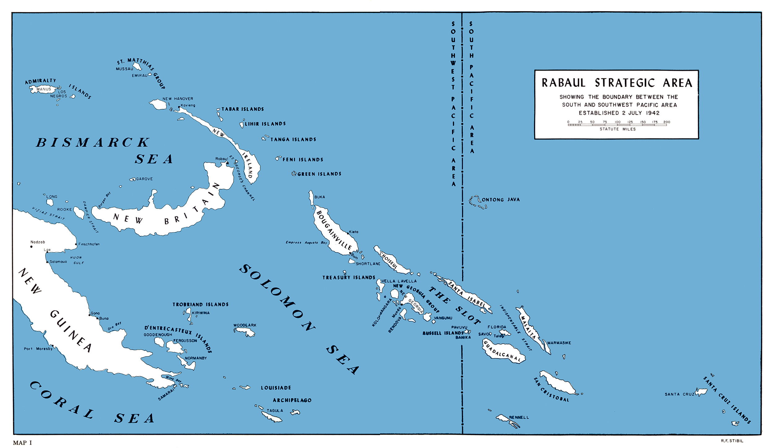 U.S. Marine map of SouthWest Pacific area, 1942